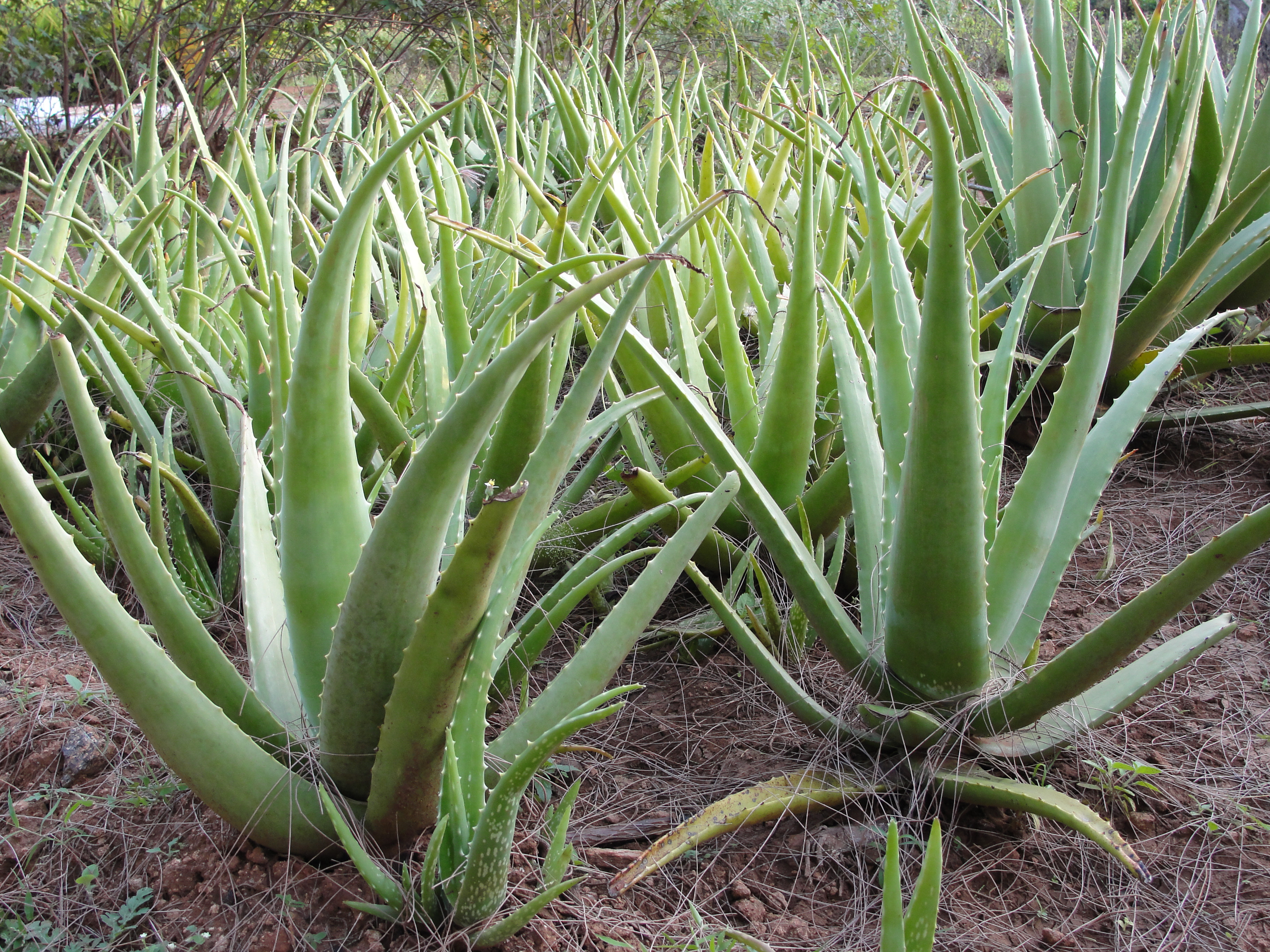 Aloe barbadensis. Location: A herbal Garden in Forest Extension Center, Sithar Koyil, Salem, Tamil Nadu, India.